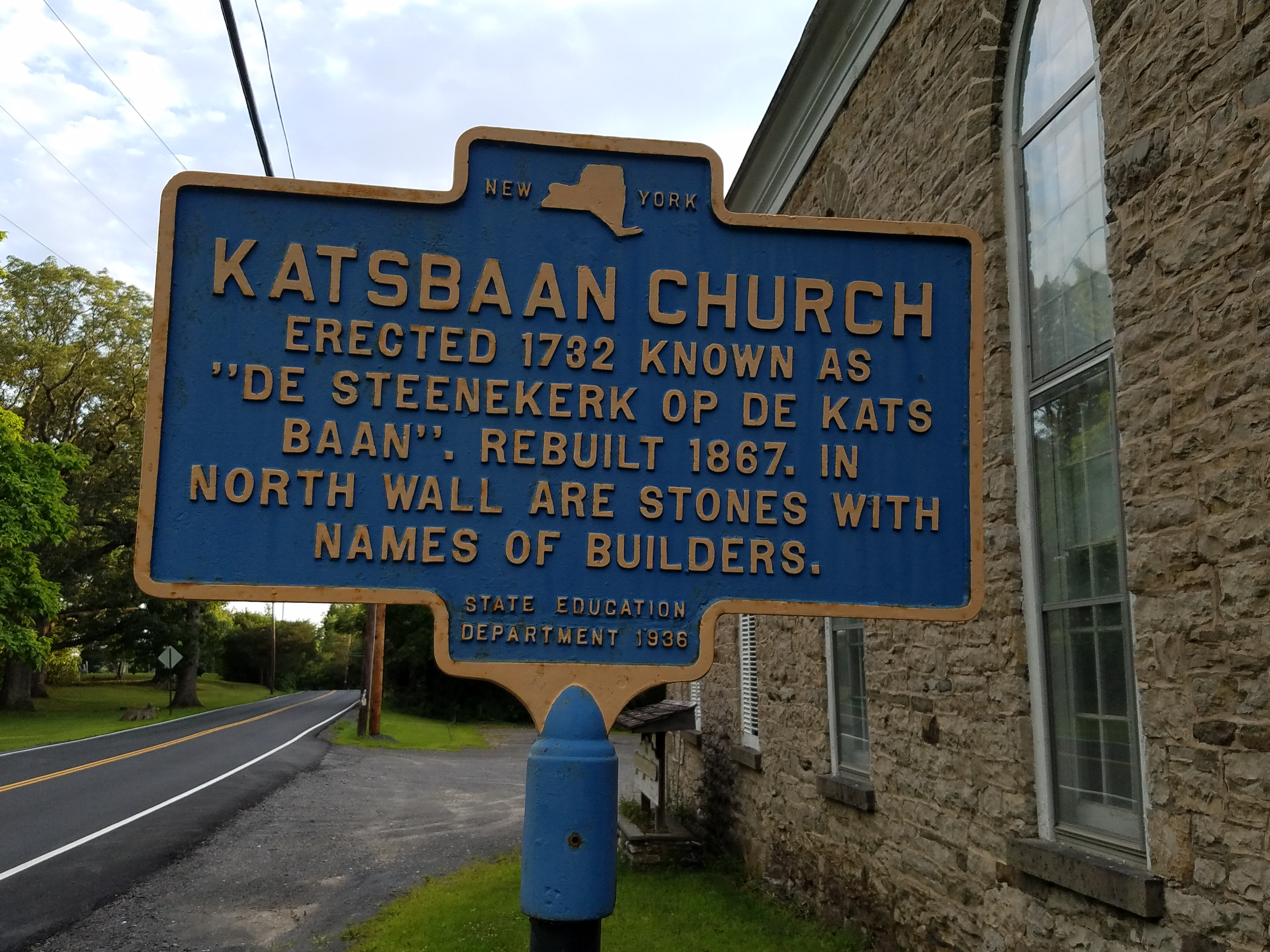 New York State historic marker for the Katsbaan Church.